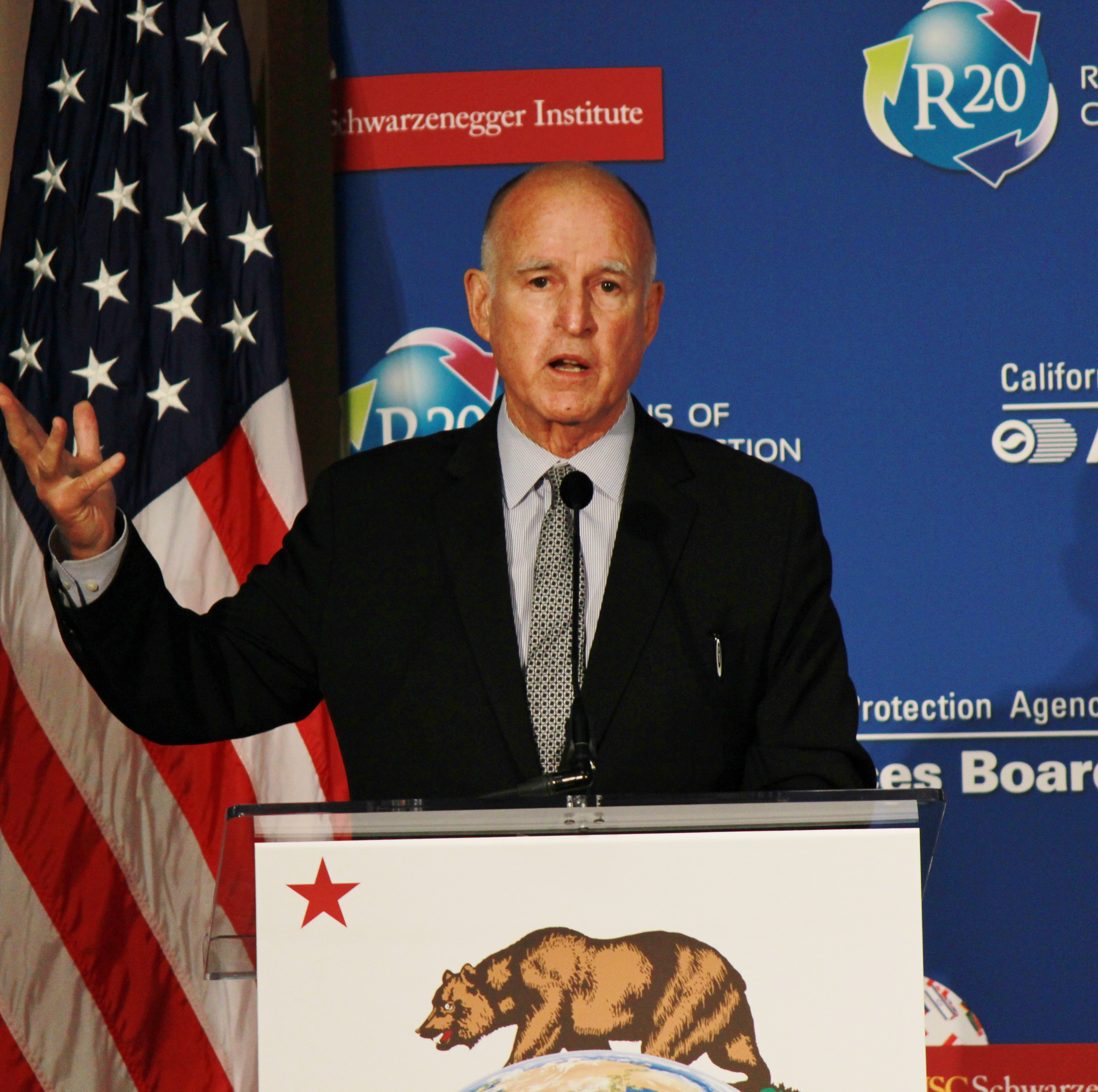 Closing remarks on the climate symposium